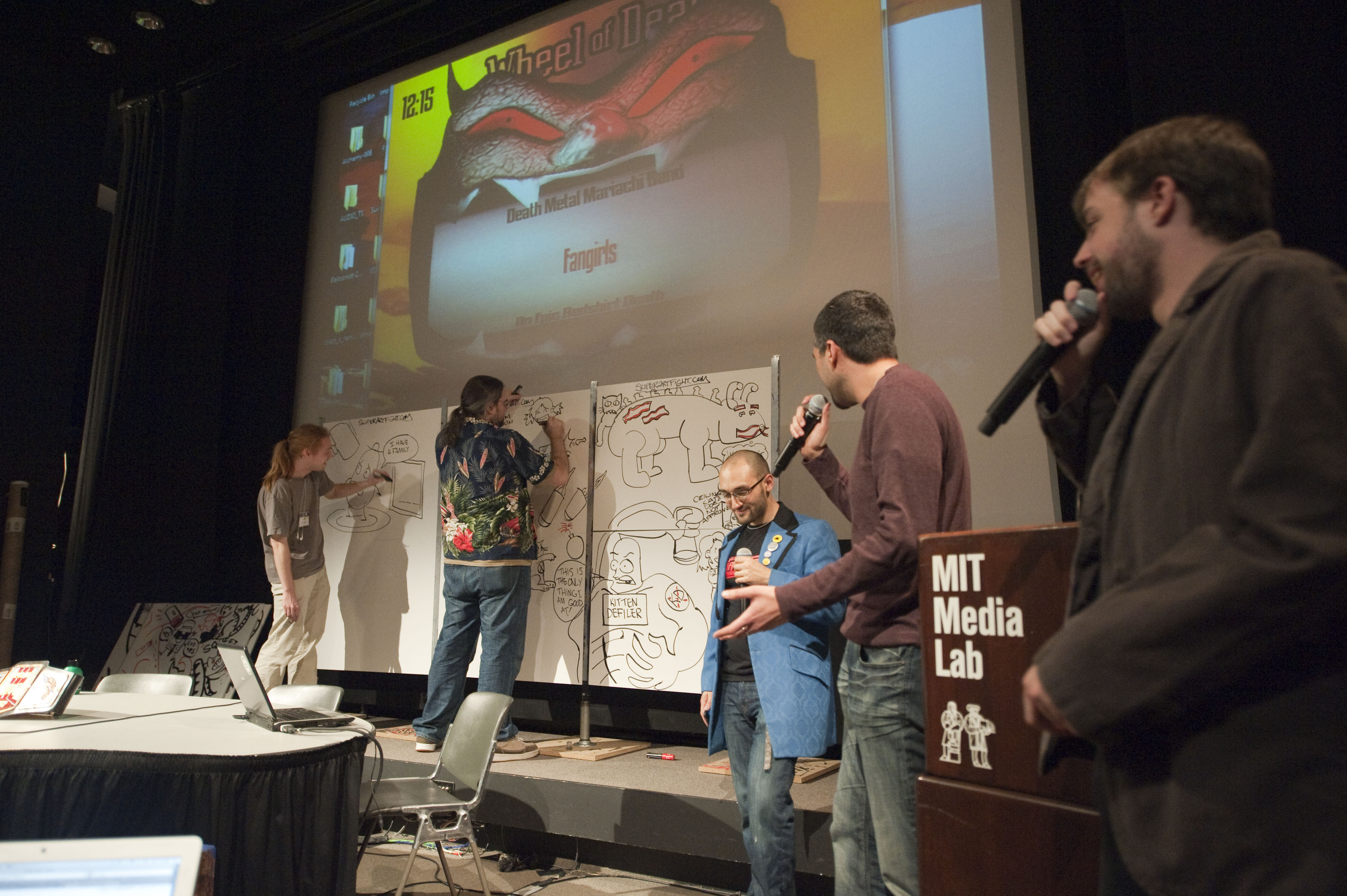 Yuko Ota (Johnny Wander) Ananth Panagariya (AppleGeeks) Tak Toyoshima (Secret Asian Man) Zach Weiner (Saturday Morning Breakfast Cereal) Rosscott Nover (Super Art Fight, The System) [Moderator]